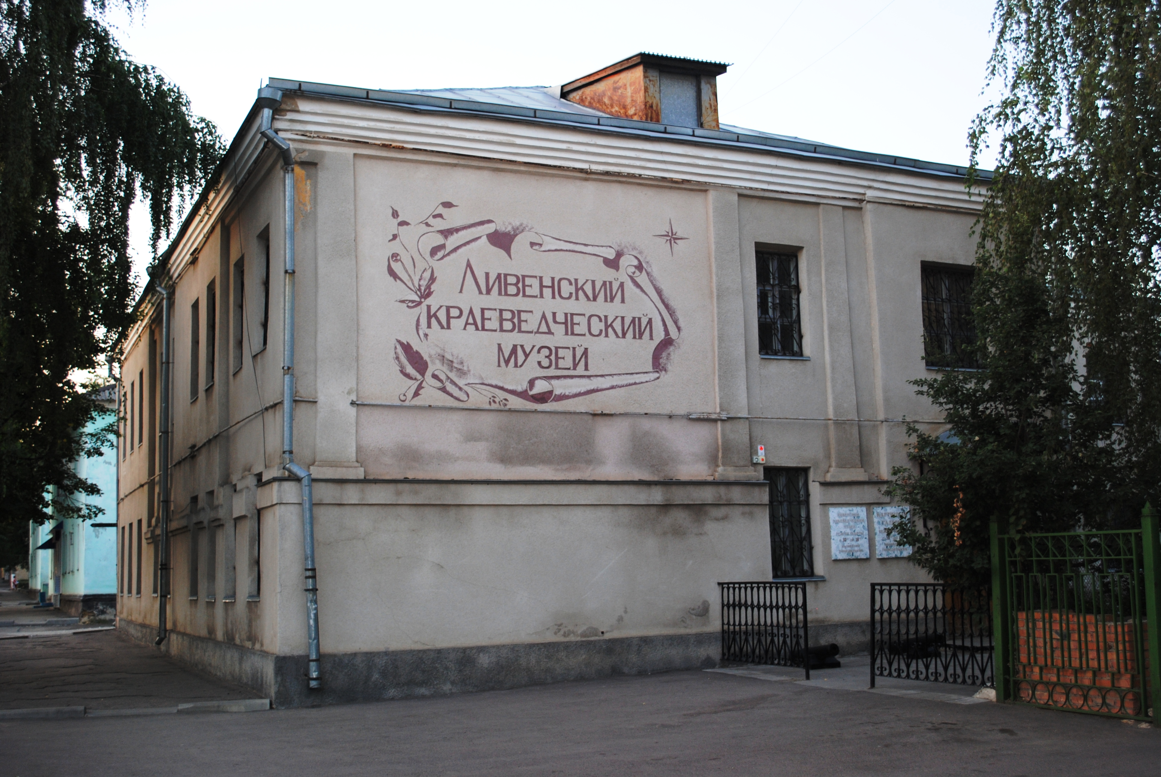 Muzeum